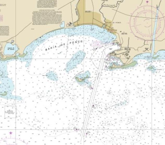 Mapa de la Bahia de Ponce. Screenshot of a map of Bahia de Ponce available for public use at the US agency "National Oceanic and Atmospheric Administration", United States Department of Commerce. The screenshot was taken on 29 September 2018.